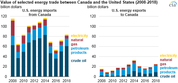 Canada is the largest energy trading partner with the United States based on the combined value of energy exports and imports. May 28, 2019